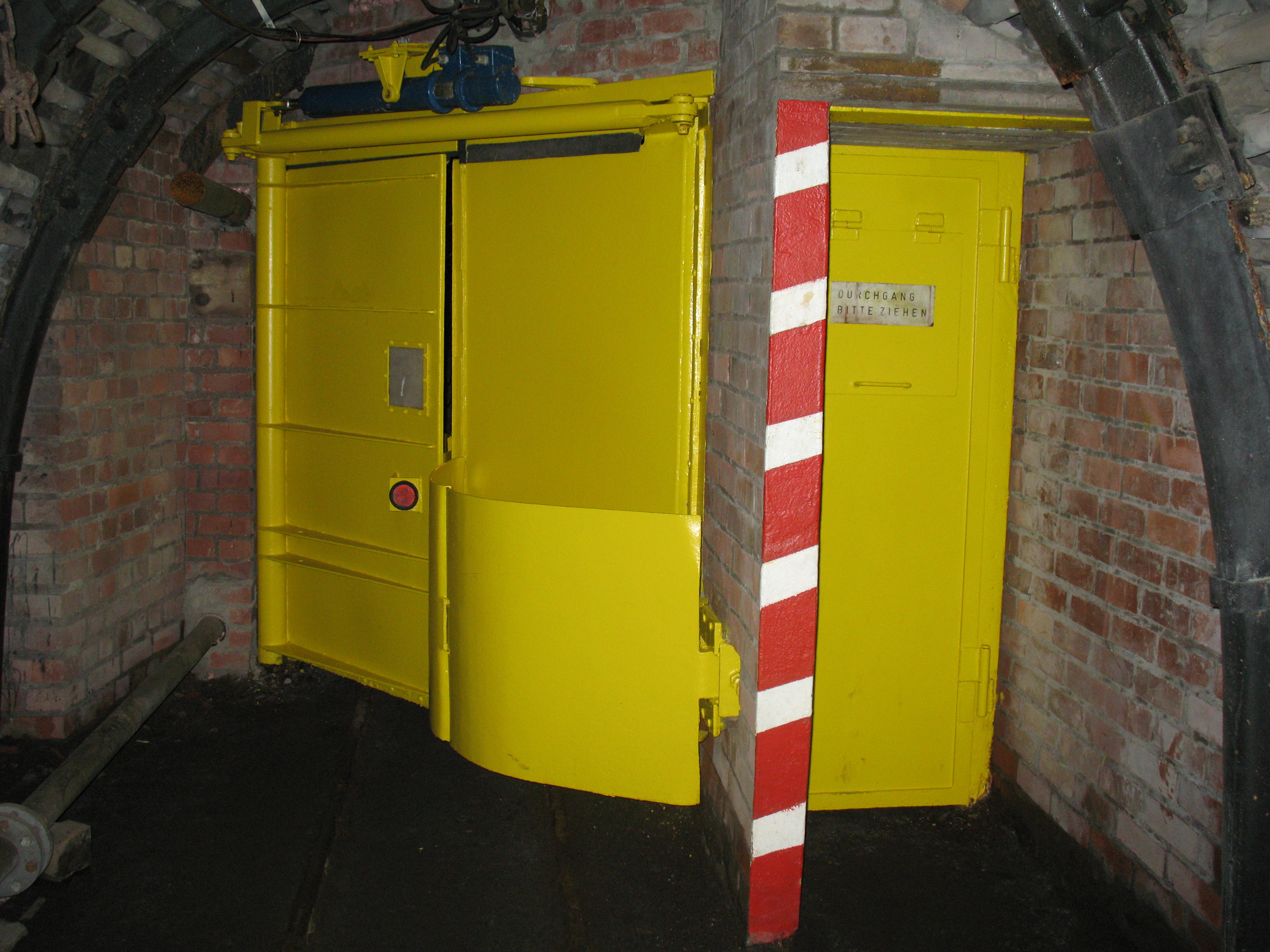 German Mining Museum in Bochum